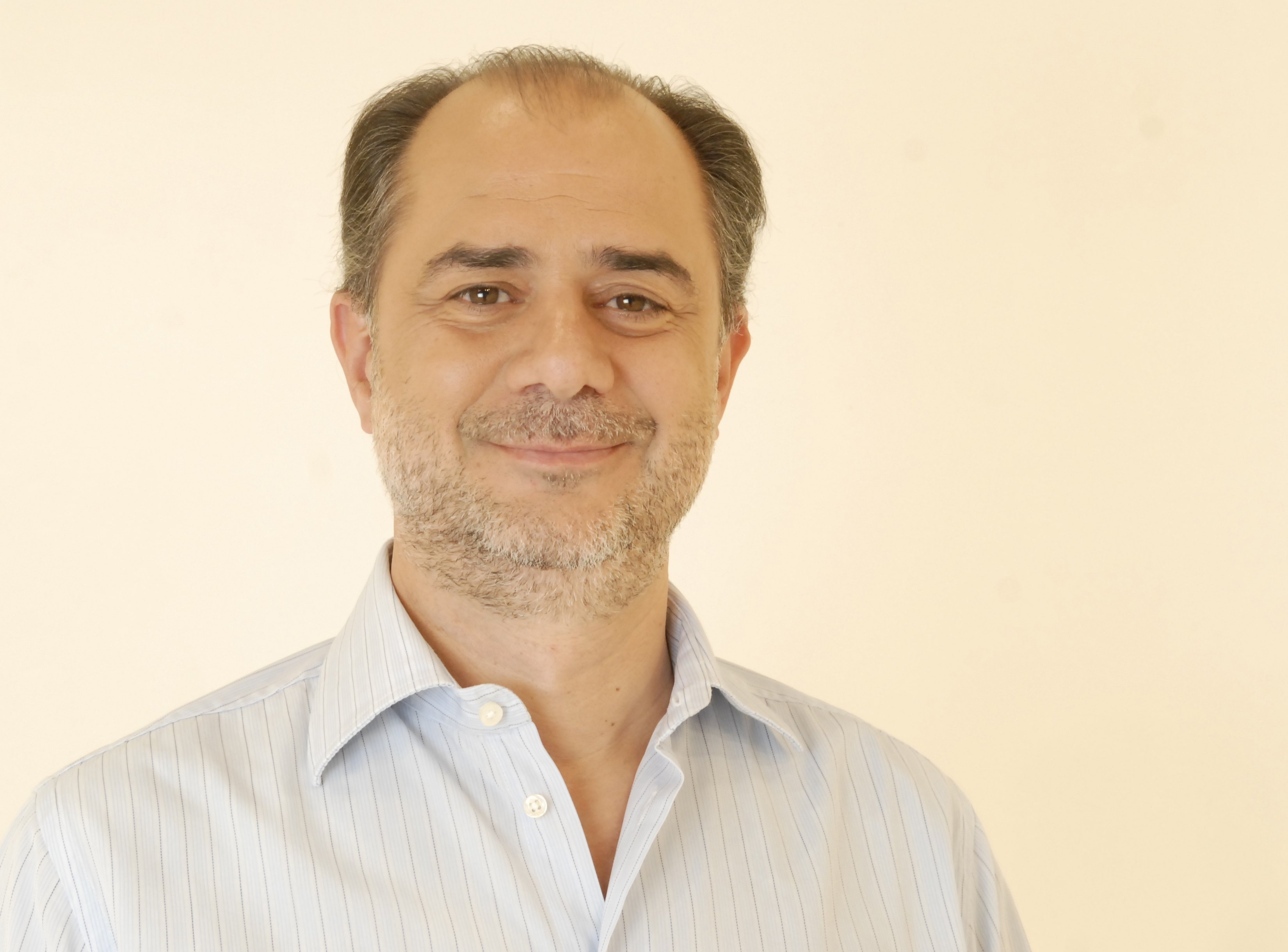 Luis Alberto Quevedo